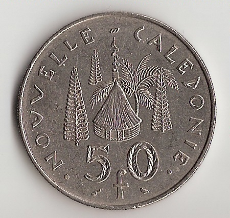 50 pacific Francs (New Caledonia)